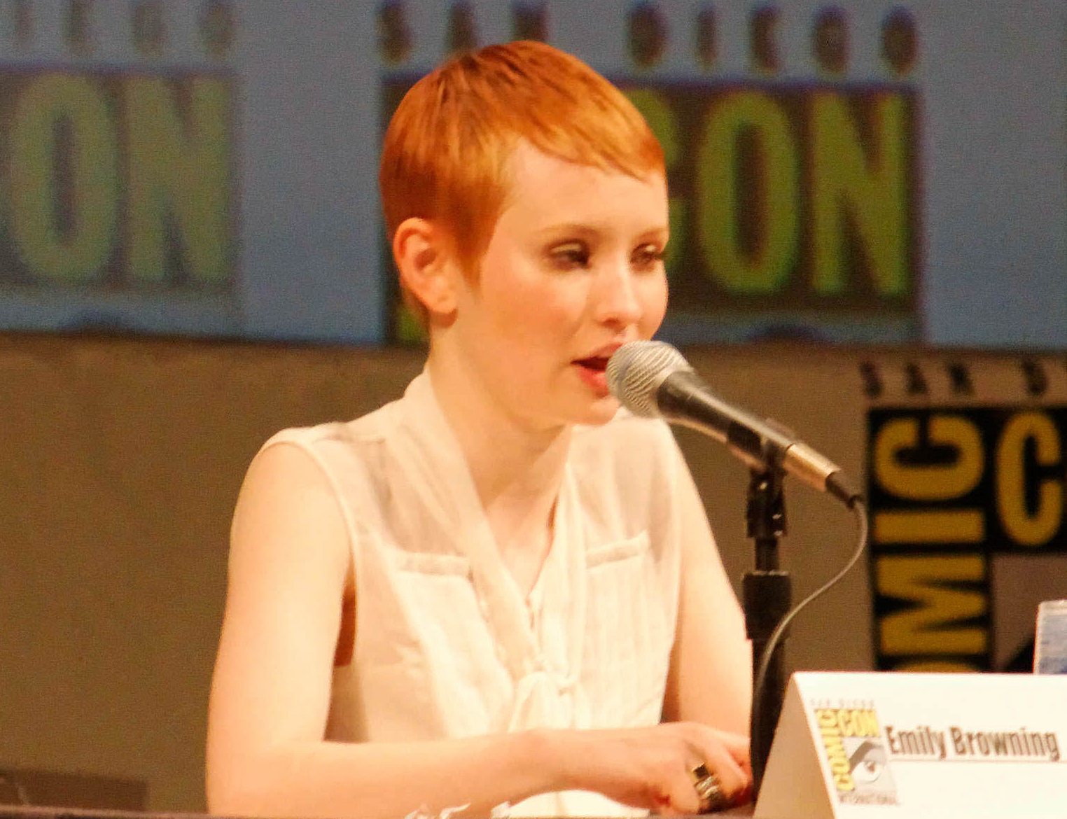 Emily Browning at the 2010 San Diego Comic-Con International.